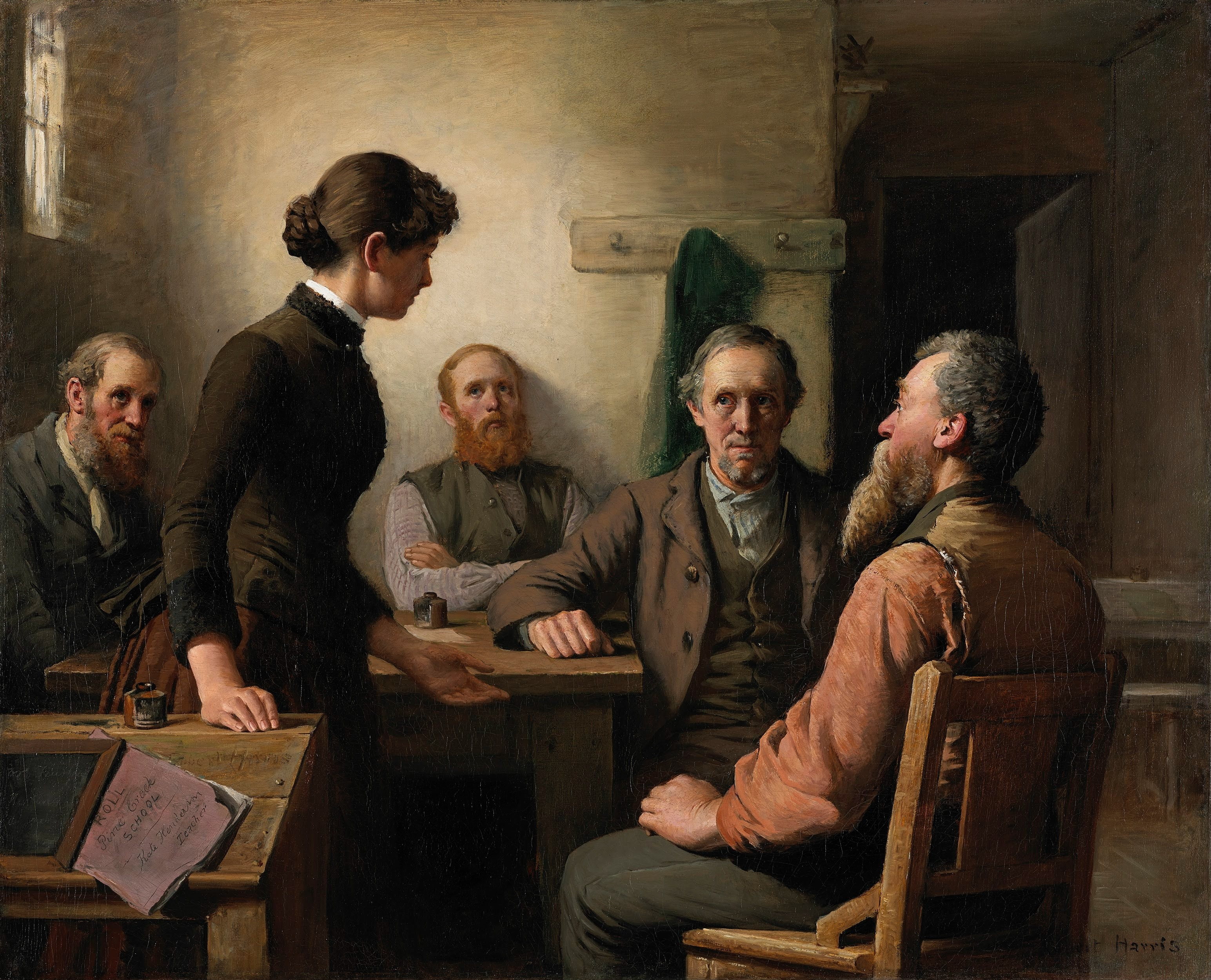 The painting illustrates a confrontation between PEI teacher Kate Henderson and her school's trustees, and it appeared on a Canadian stamp in 1980.